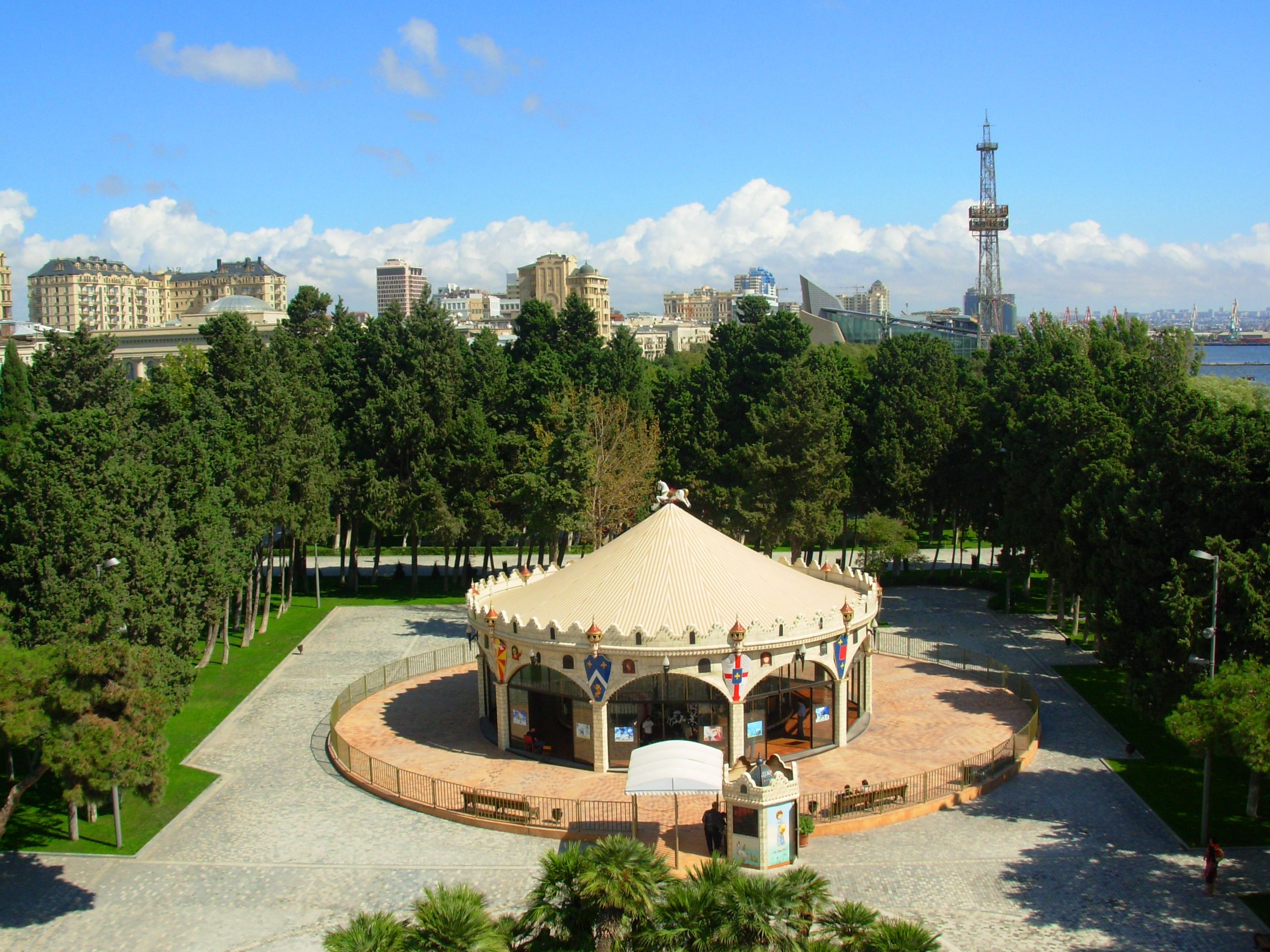 The Carousel Baku, Azerbaijan